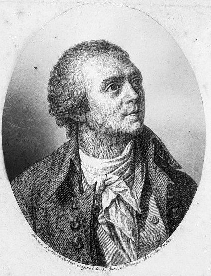 Genevan naturalist and Alpine traveller Horace-Bénédict de Saussure (1740-1799). Engraving by Ambroise Tardieu, from the original portrait by St Ours.